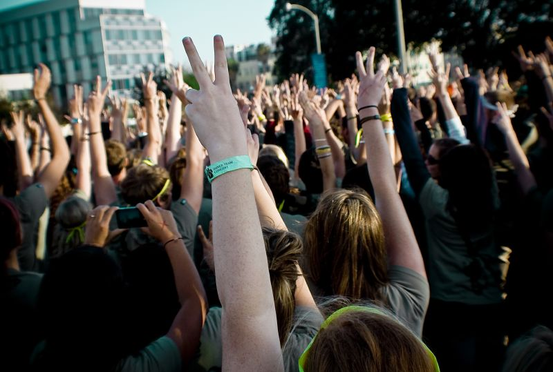 i love how everyone came out blurred except for her peace sign!! i didn't edit the blur in :] Taken at "The Rescue" of Invisible Children in Santa Monica